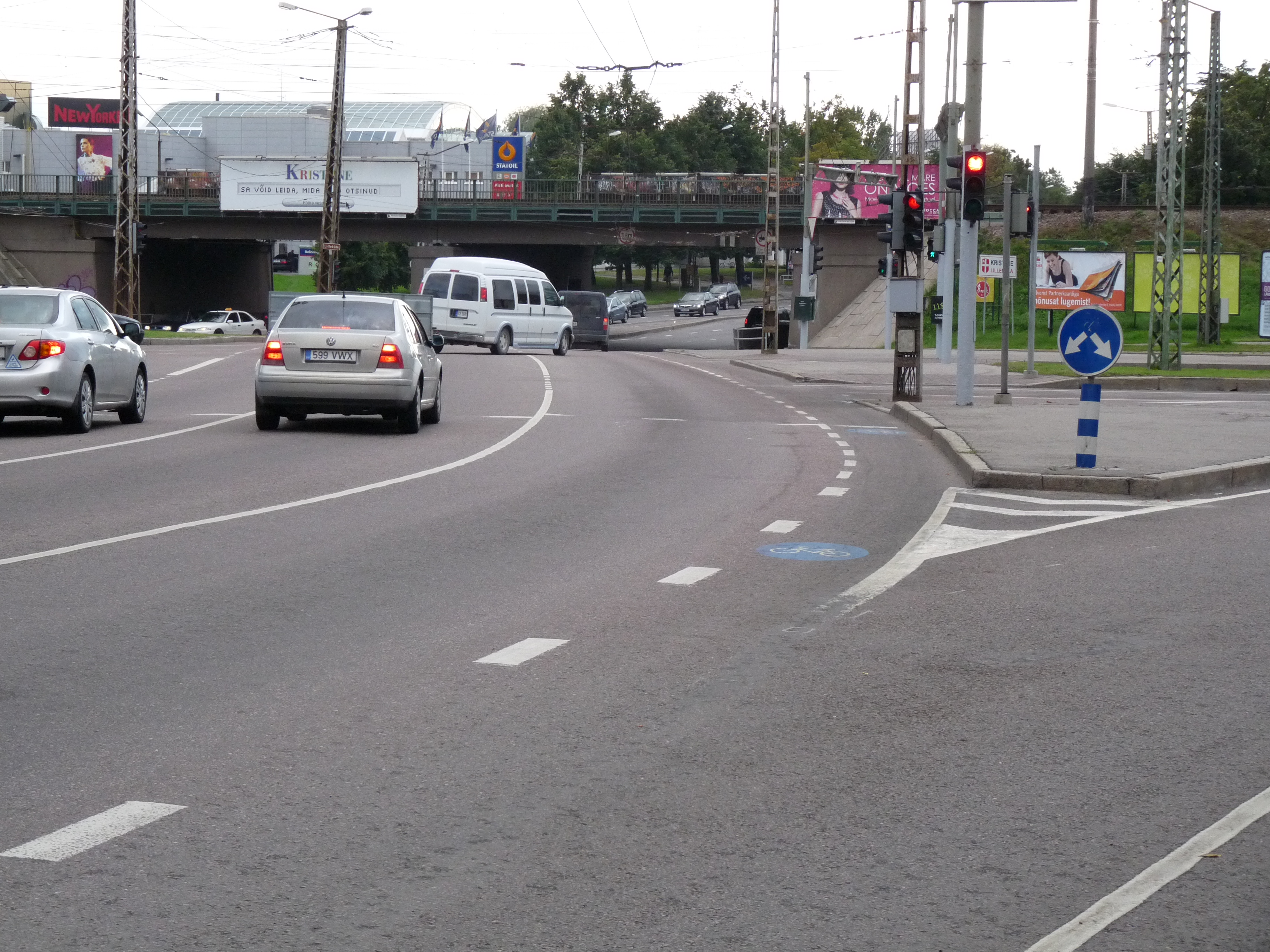 Luise, Tehnika and Endla intersection in Tallinn